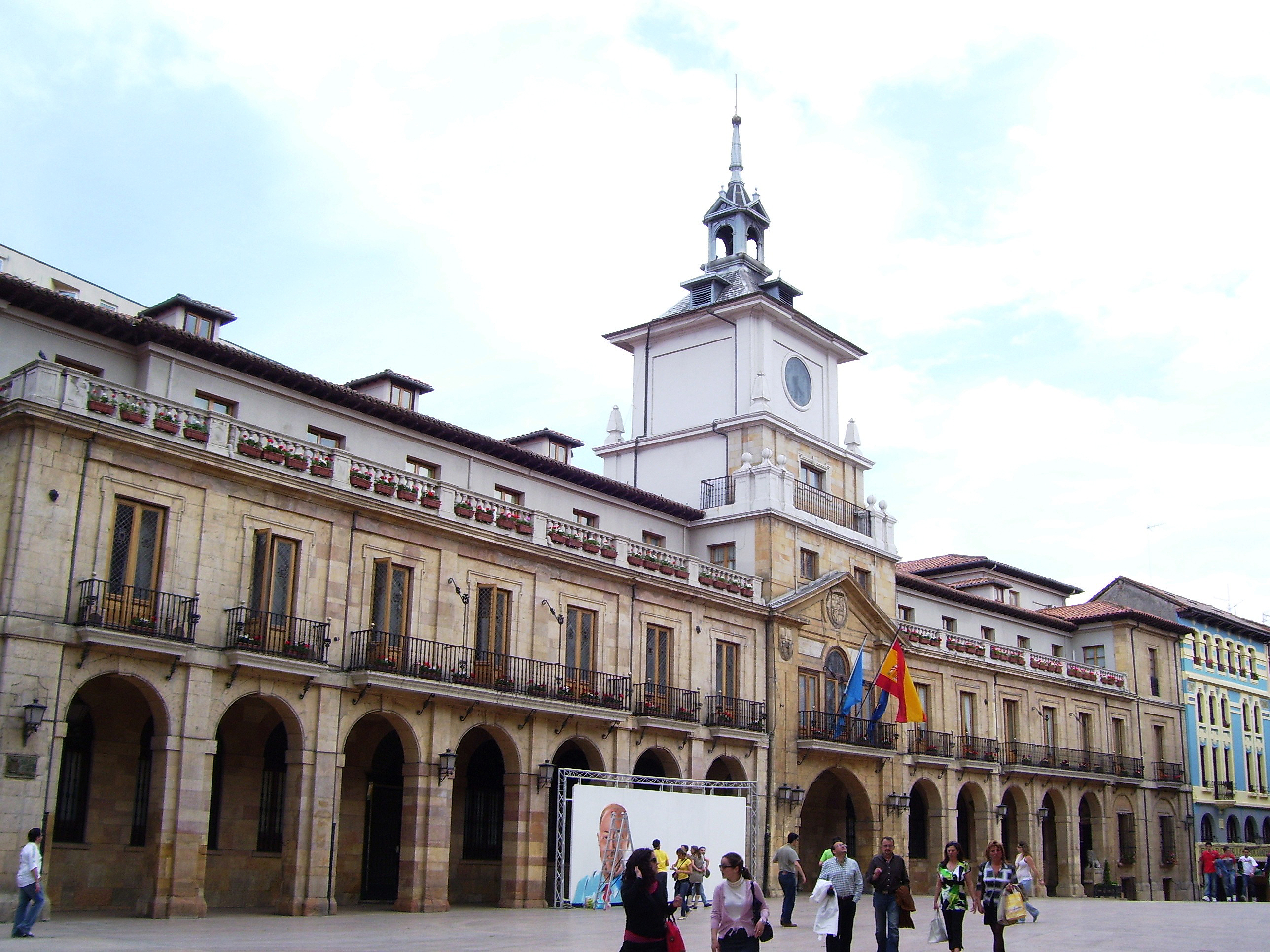 building City Hall Oviedo, Uvieu, Principado de Asturias